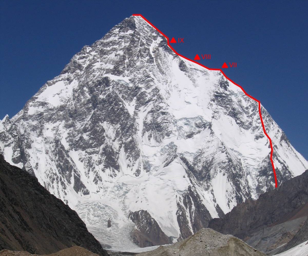 K2 July 1954: trace of the Abruzzi spur italian route with the last camps